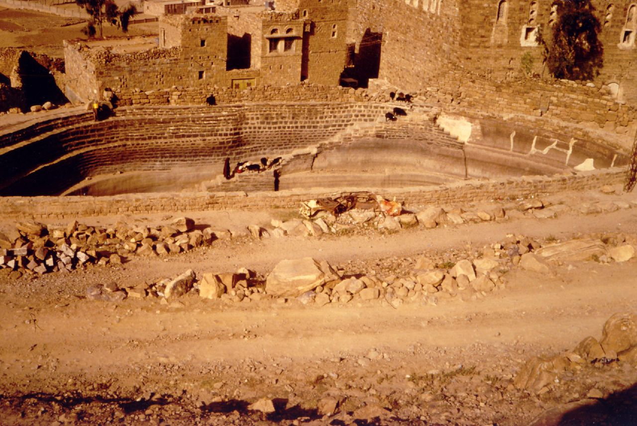 Thilla village well, in central Yemen. "Cool and green and almost run out is the water inside."